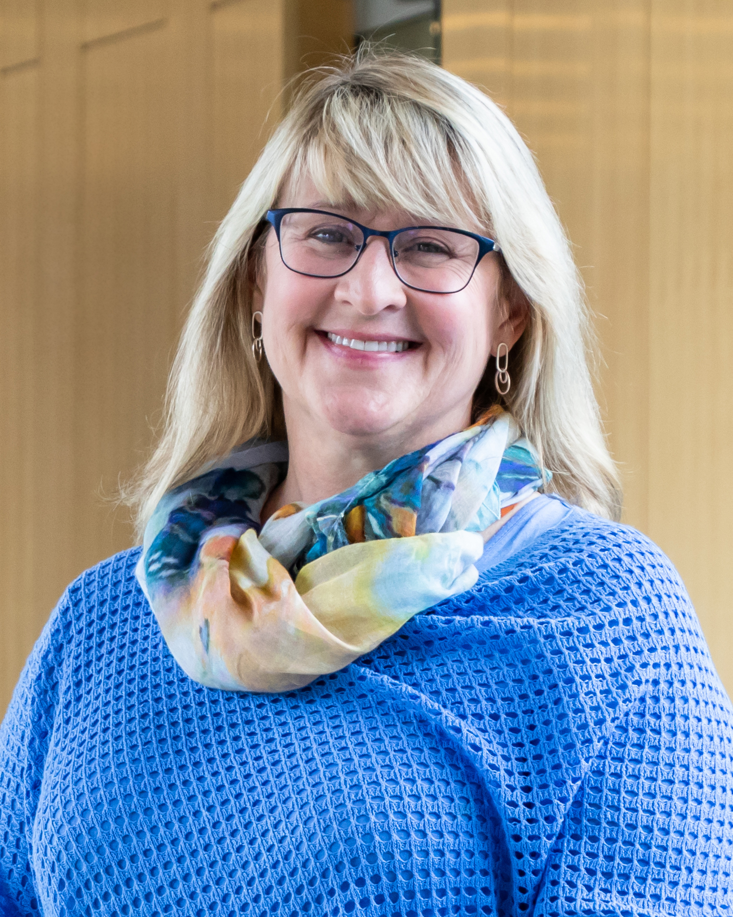 Deborah Bronk, American oceanographer.